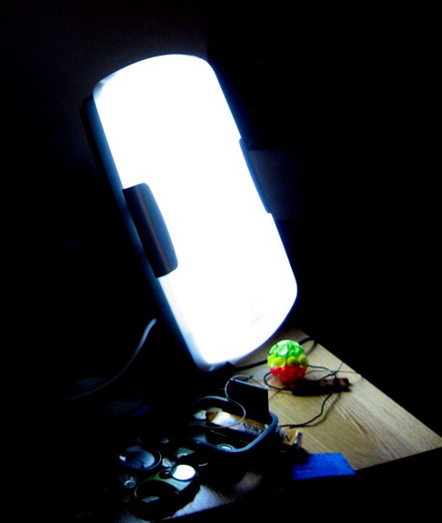 Flickr description: "My very bright artificial sunlight thingy, that has sat in my room unused for quite a while. I drilled holes in it, strung some twine through 'em, and hung it from the picture-rail in my room, turning it into a plant light!" Image is of a HappyLite